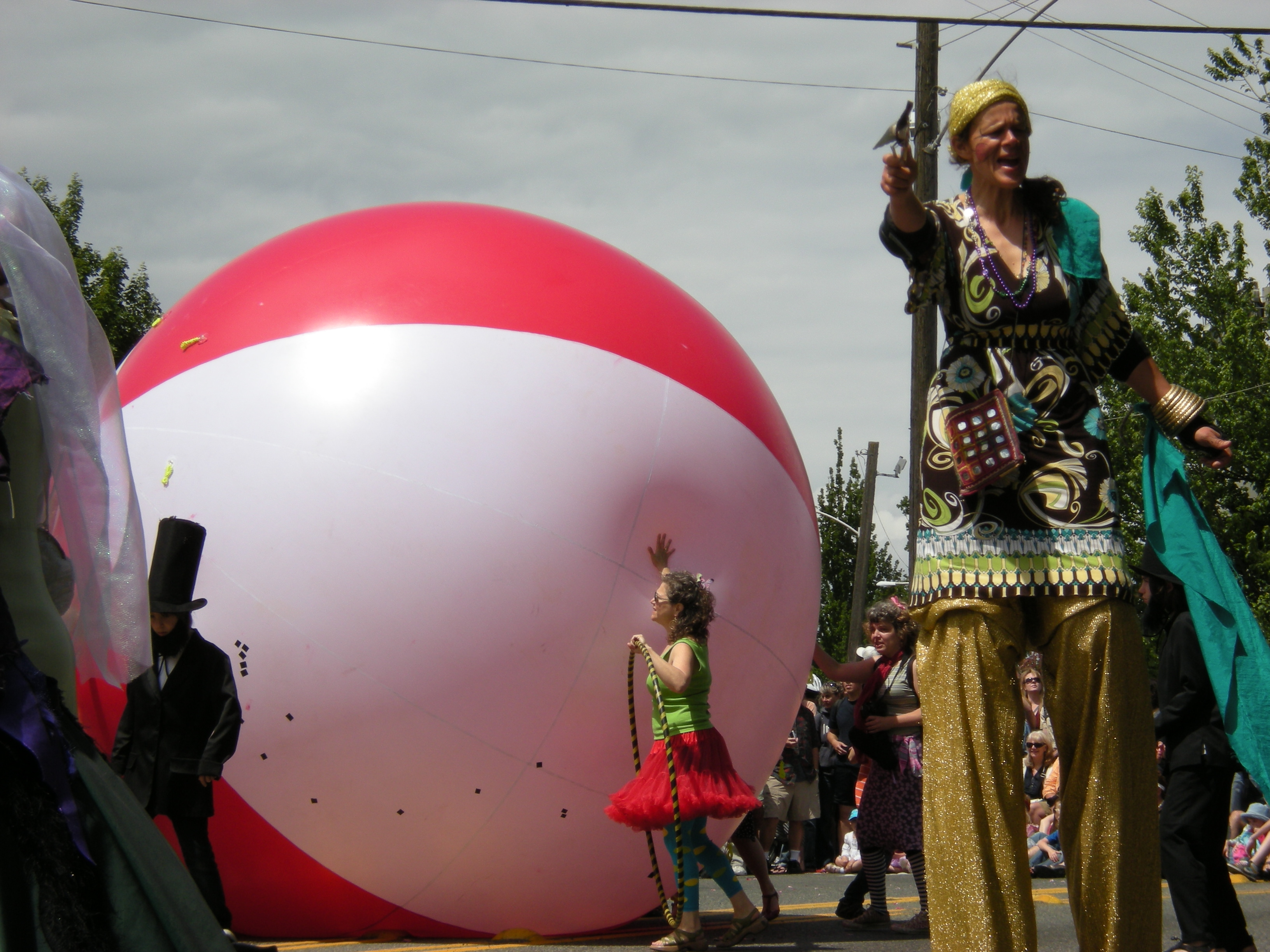 Costumed stilter, giant beach ball, and others, Summer Solstice Parade, Fremont, Seattle, Washington.